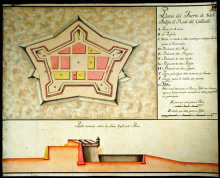 Plan of the Fortres Royal Phillip